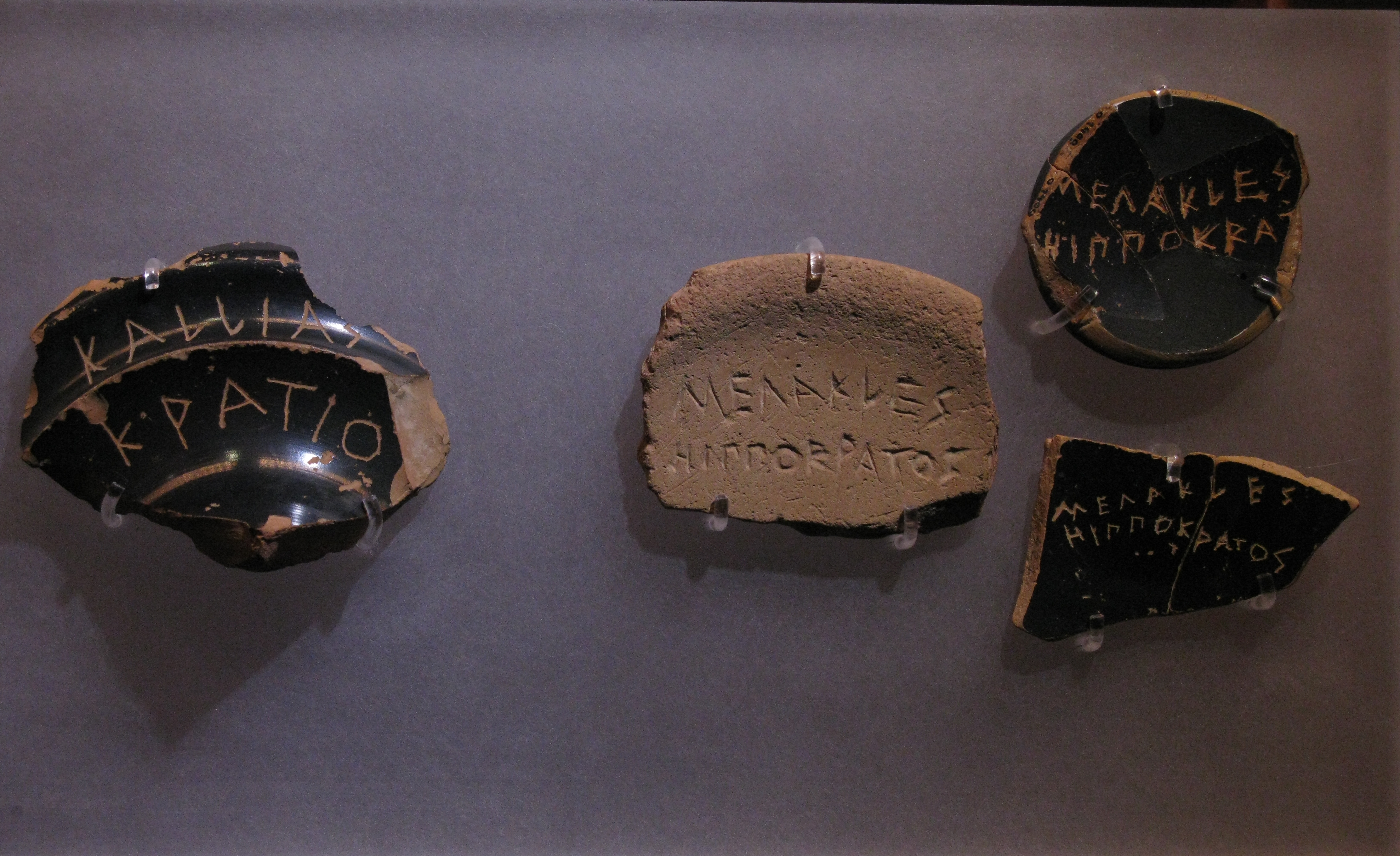 Ostraka used as voting tokens. The person nominated is Megakles, son of Hippocrates, who was exited (ostracized) in 486 BC. Cycladic Art Museum, Athens, Greece.